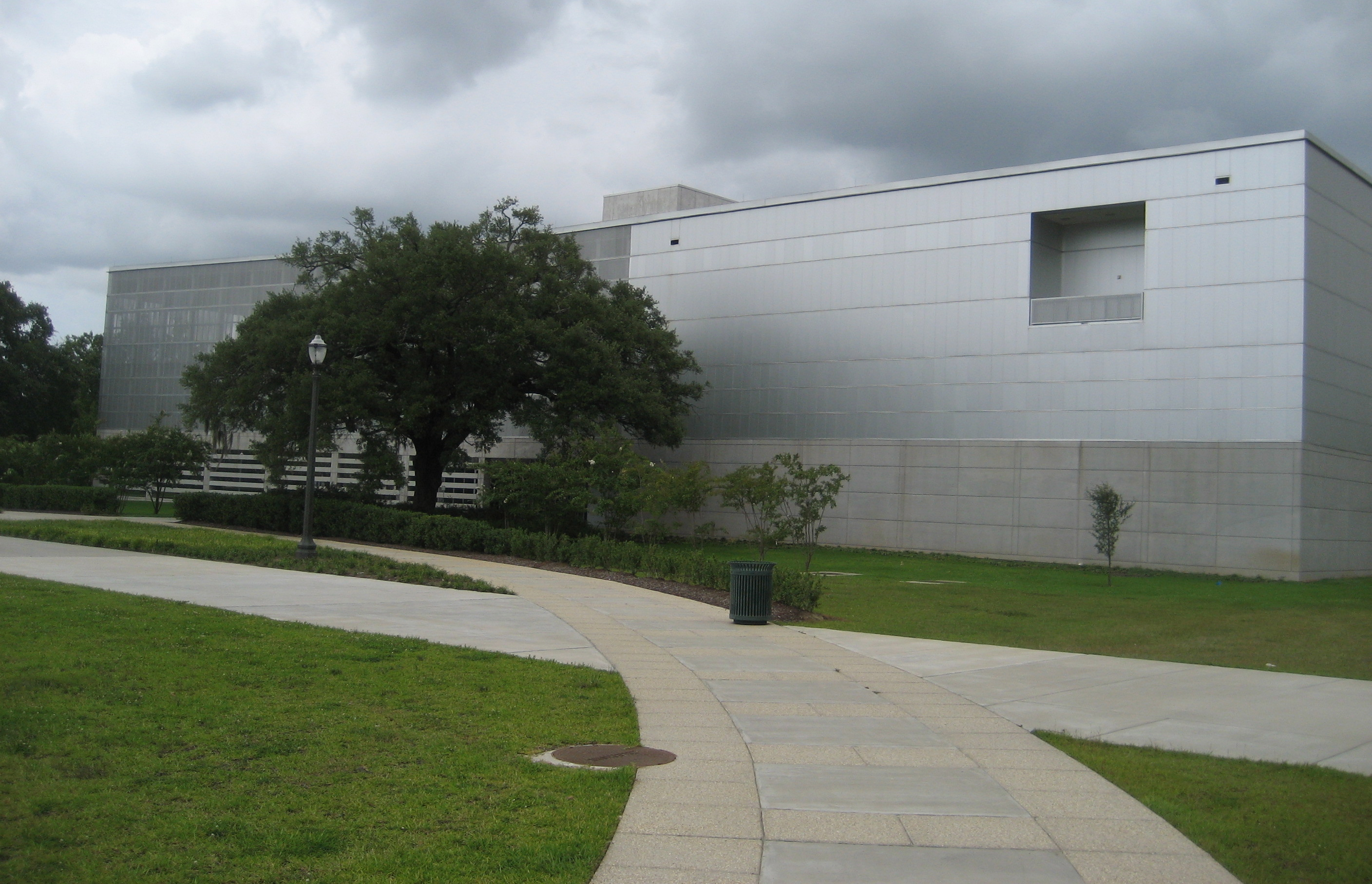 Central Baton Rouge, Louisiana. Exterior view of Louisiana State Museum building.